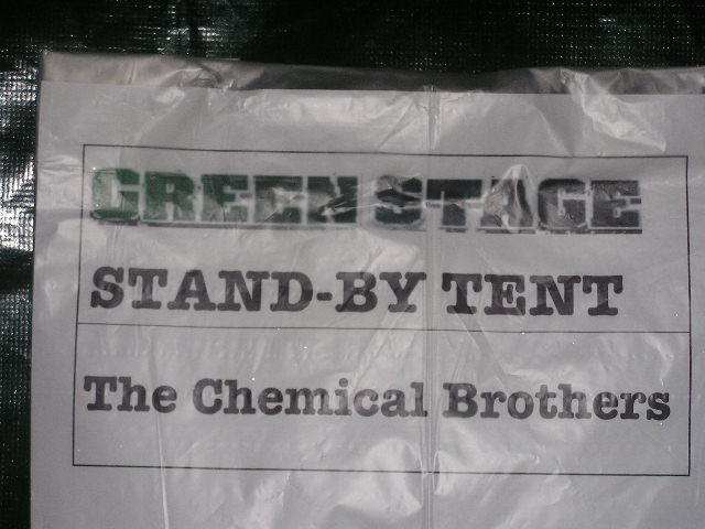 I took this photo backstage at the Green Stage at Fuji Rock Festival, in Naeba, Niigata, Japan. I give this photo freely to anyone.